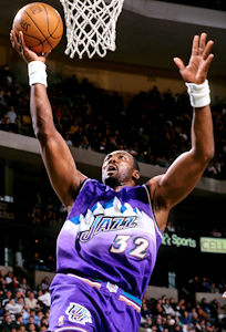 Basketball Hall of Fame inductee Utah Jazz Karl Malone 1997